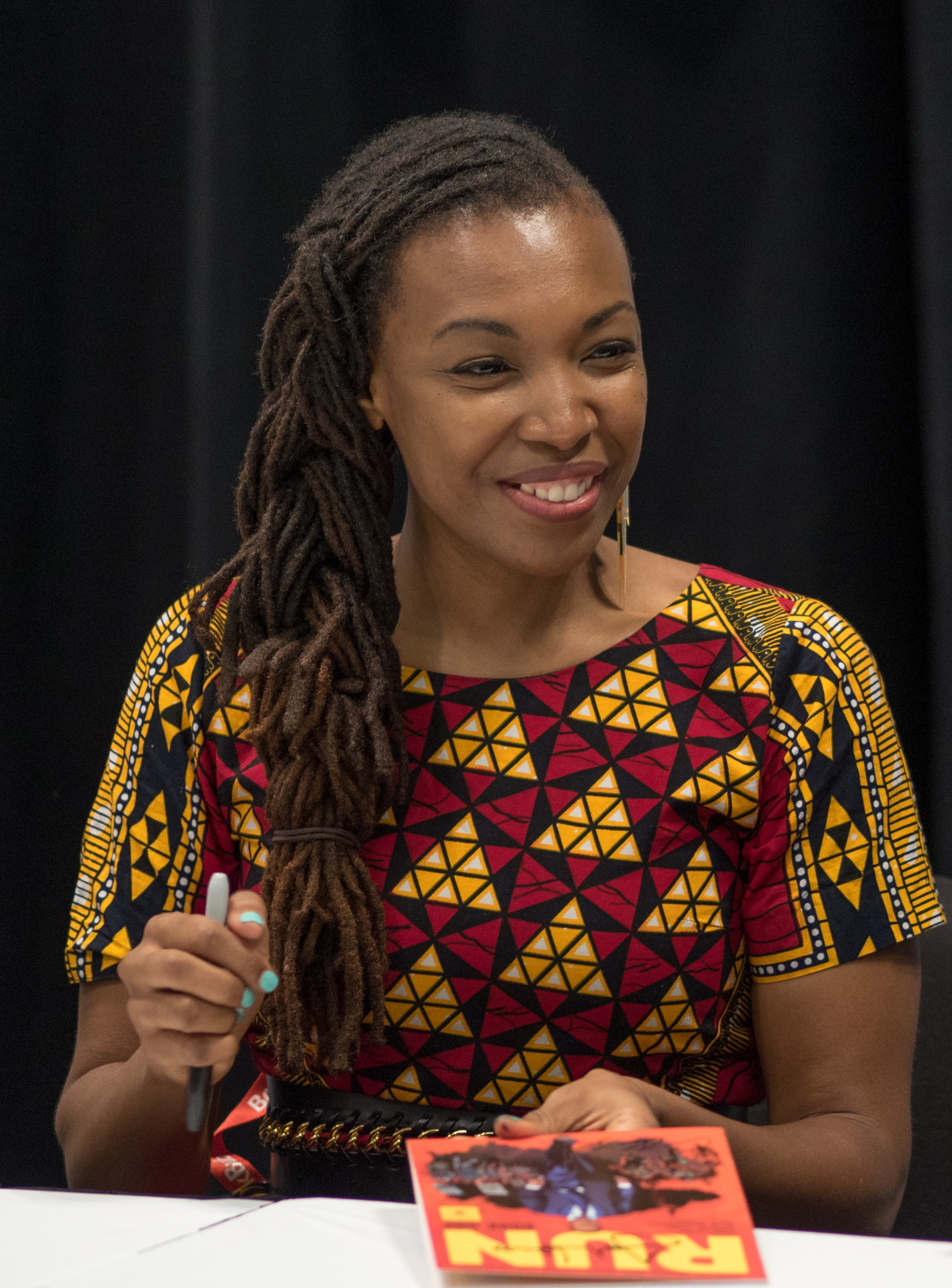 Afua Richardson BookExpo America 2018 at the Javits Convention Center in New York City.